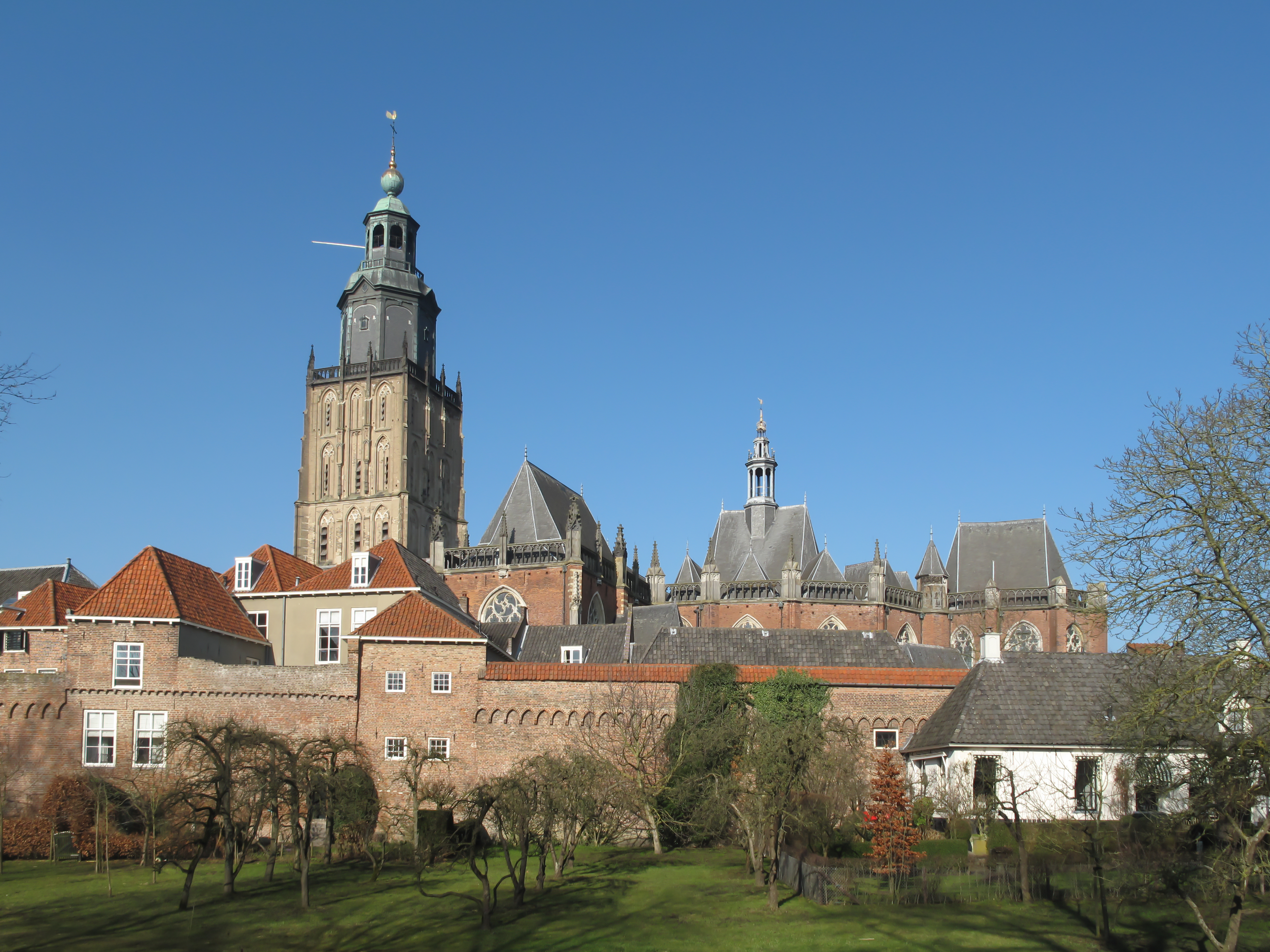 Zutphen, church: Walburgkerk and town wall